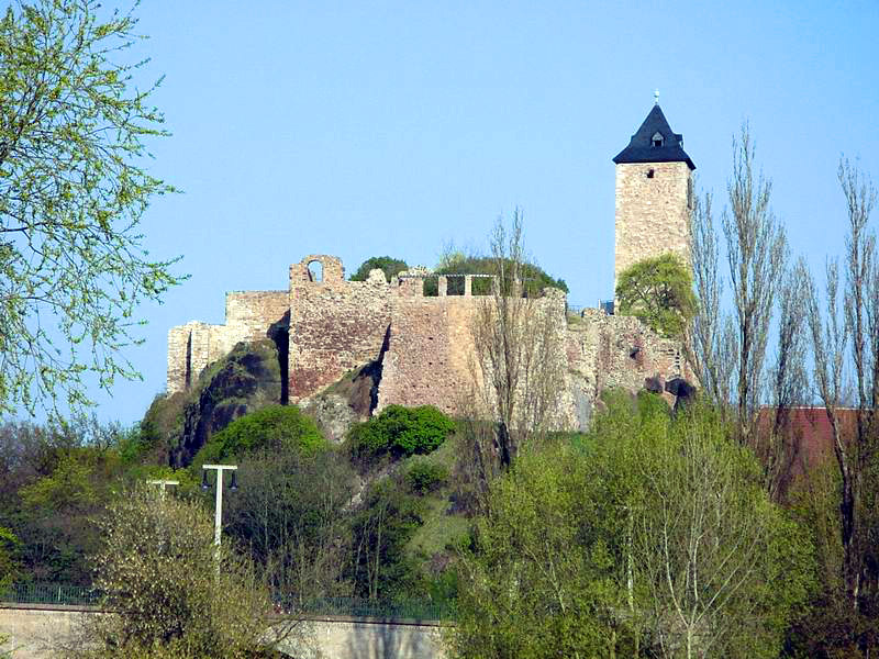 Ruins of Giebichenstein Castle